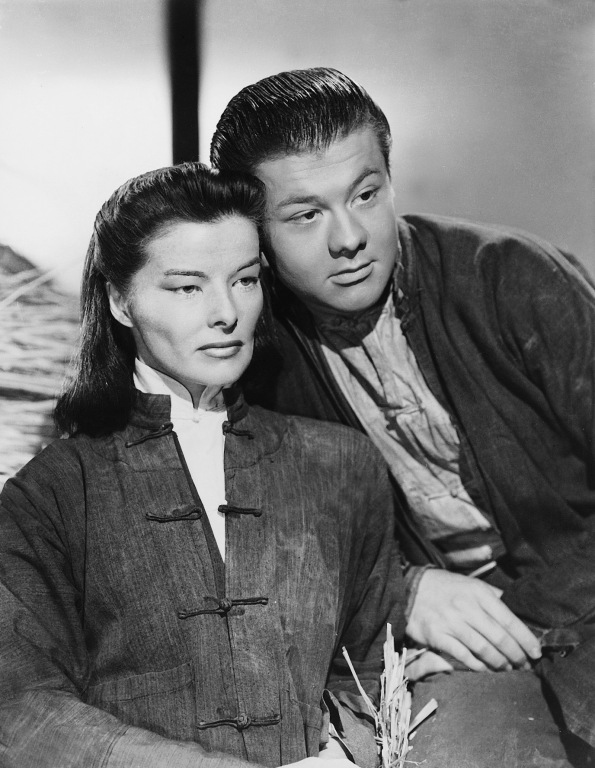 Katharine Hepburn and Turhan Bey in Dragon Seed (1944) - publicity still